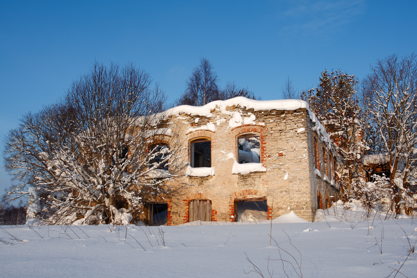 Preedi manor distillery in Järvamaa, Estonia